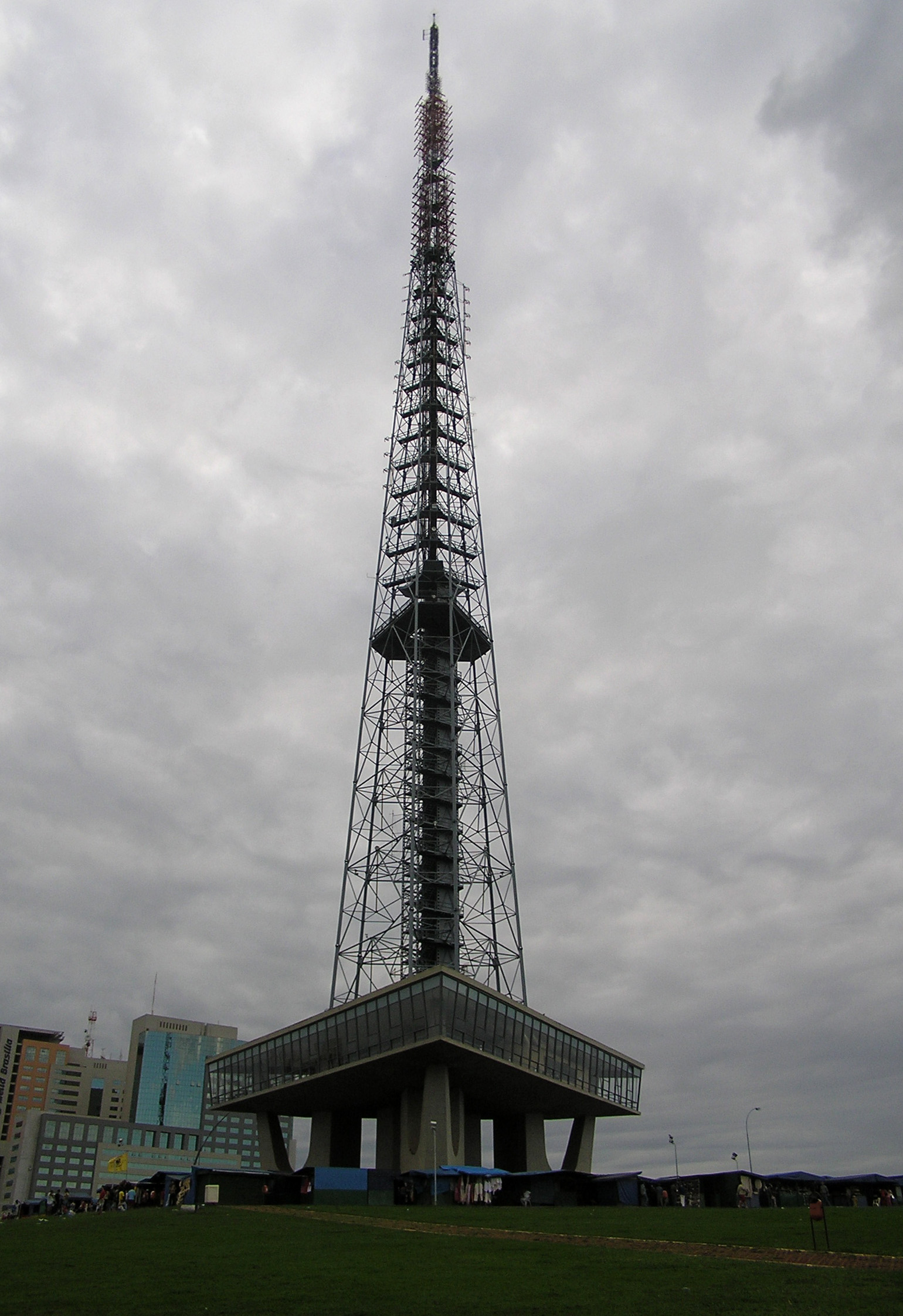 Brasilia TV Tower